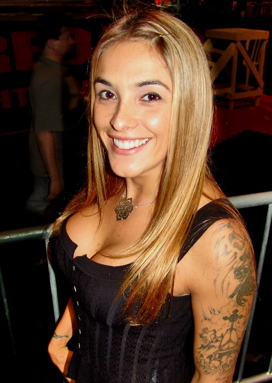 Brazilian singer Syang.